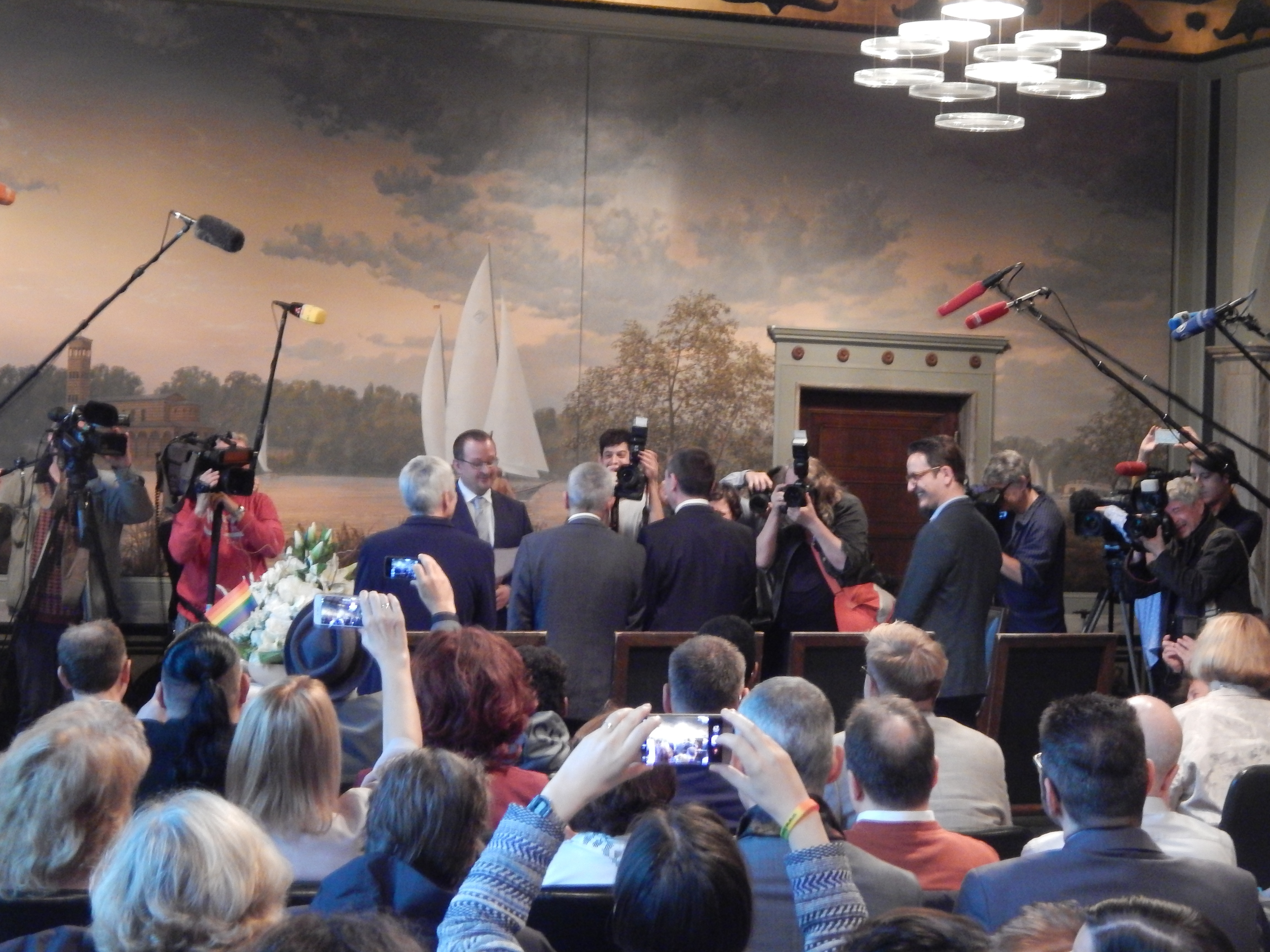 first gay marriage in Germany, Berlin, Rathaus Schöneberg, Goldener Saal